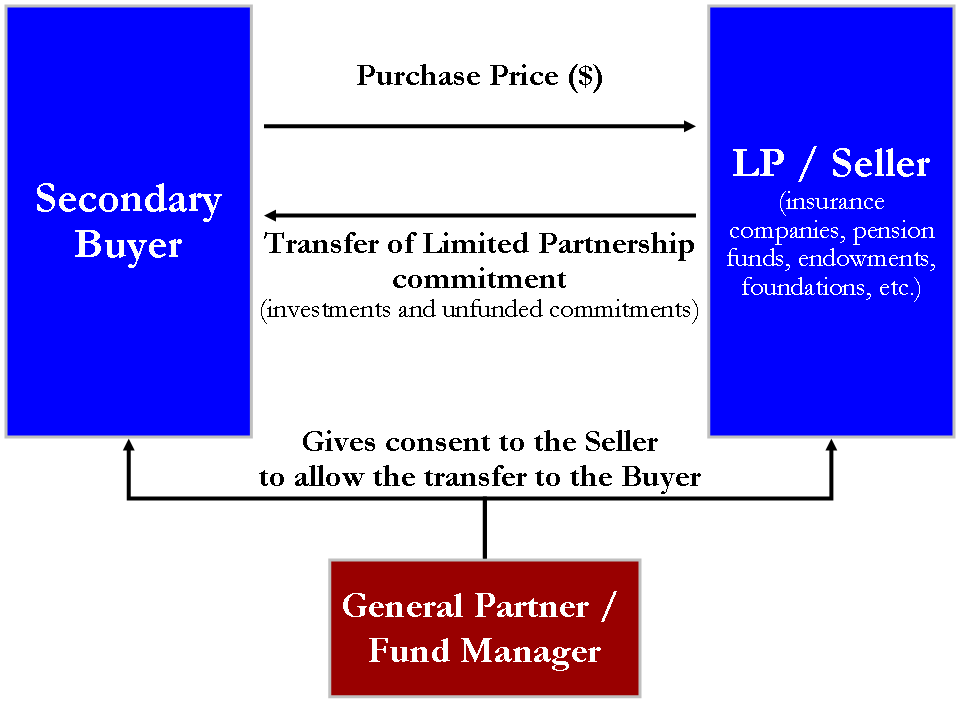 Diagram of secondary market transfer for Private equity secondary market